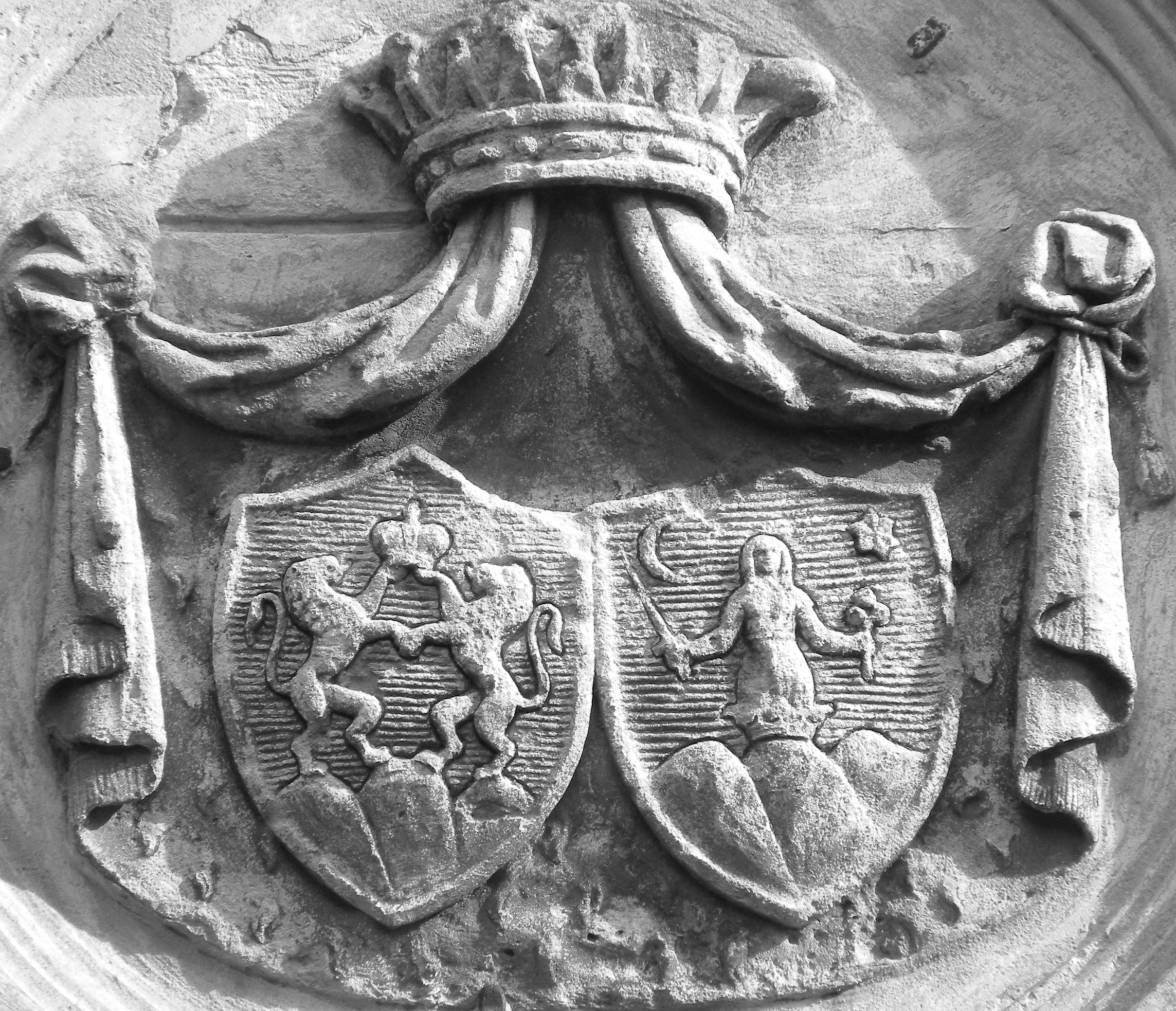 Coats of arms of Károly III Andrássy (1792 - 1845) and Etelka, born Szapáry (1798 - 1876). Left rear facade of manor house in Humenné, Slovakia.